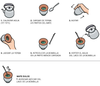 Como cebar mate, infusión nacional argentina.